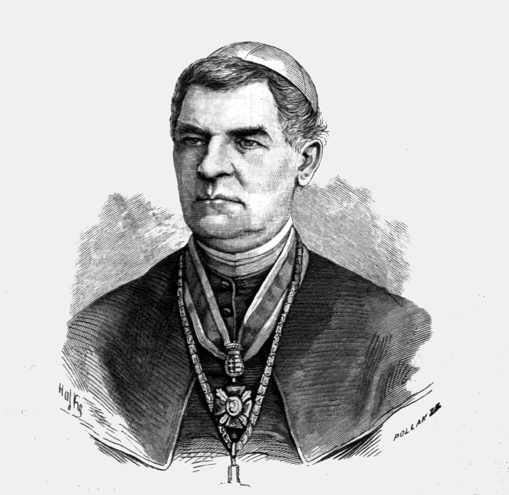 János Pauer